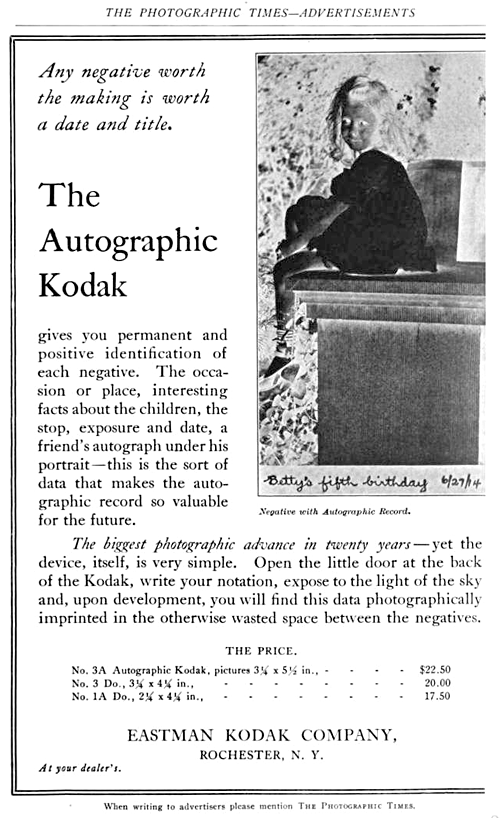 Ad for Kodak Autographic Film system.